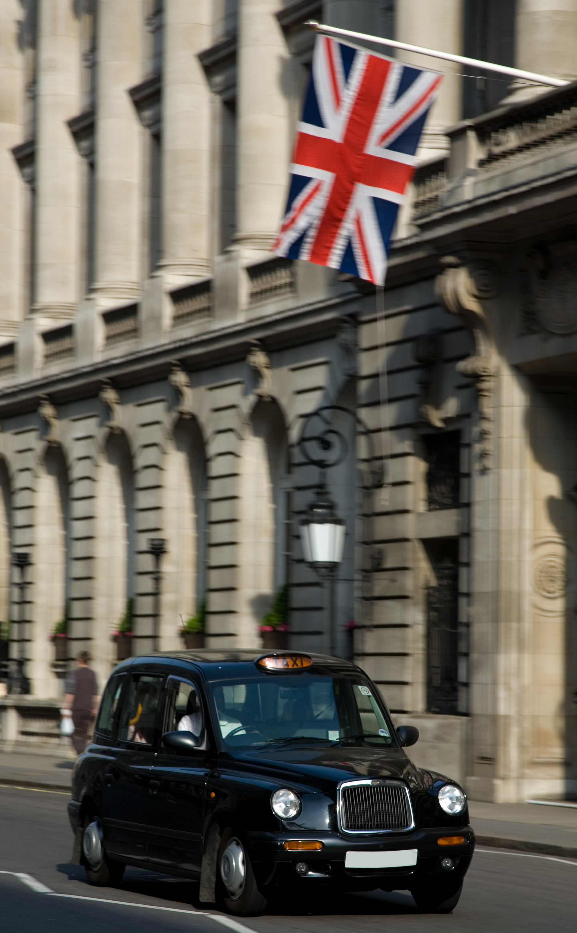 A London Black Cab (LTI TXI or TXII) passing a Hotel in London, England. Taken with a Canon 5D and 24-105mm f/4L lens.